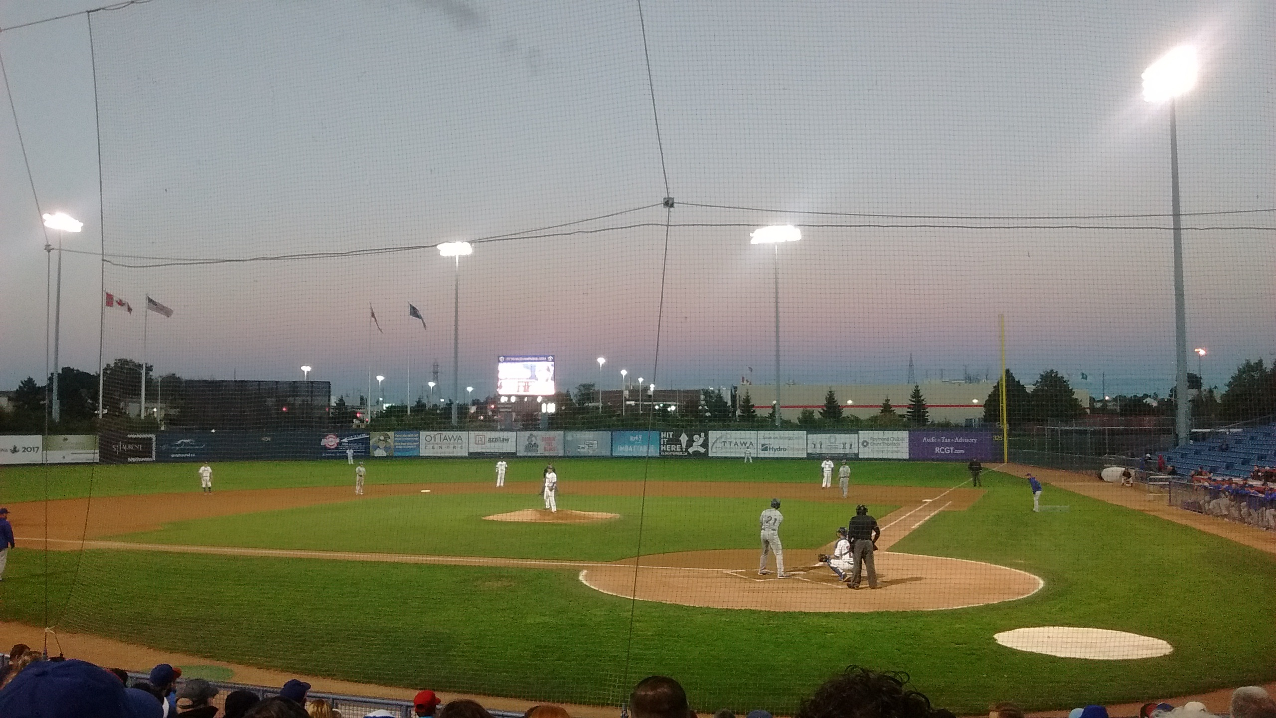 2016 Can-Am league final game #2